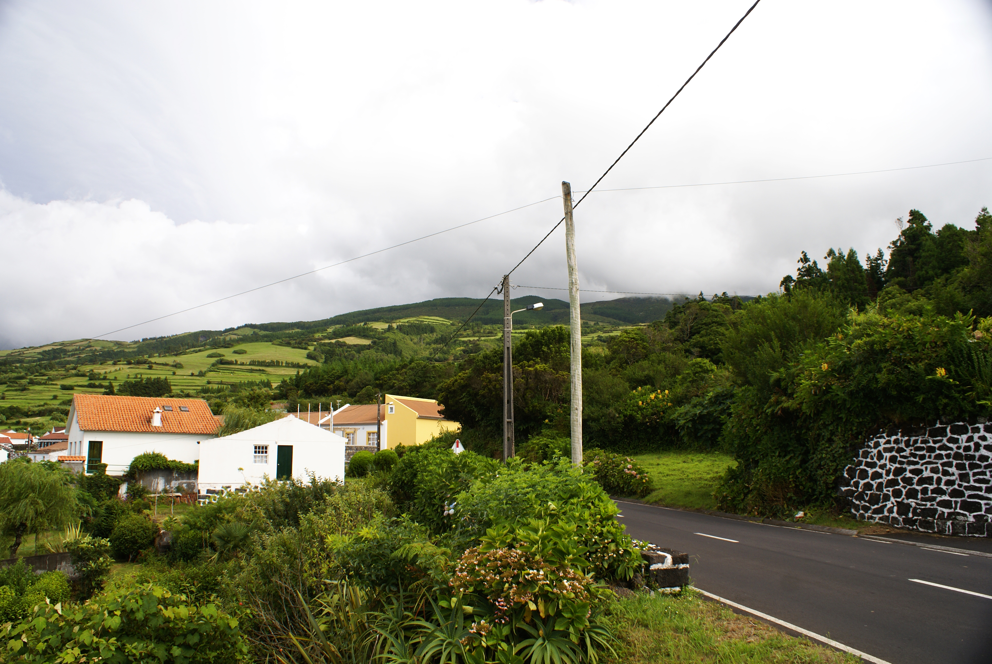 Praia do Norte, aspectos, ilha do Faial, Açores, Portugal